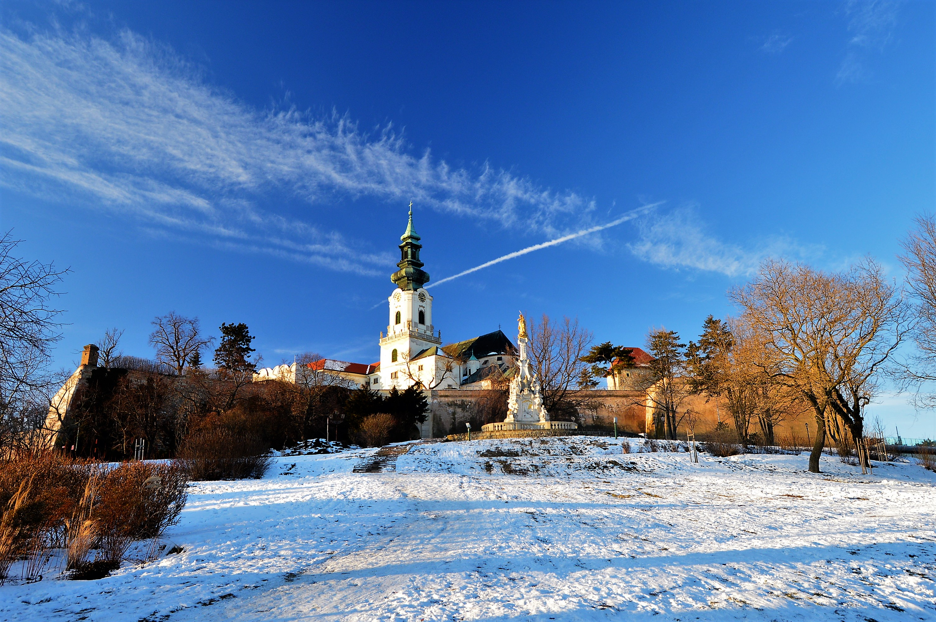 Nitra castle in winter